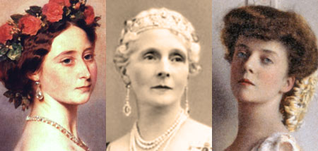 Composite illustration of three Princesses Alice (from left): Princess Alice of the United Kingdom Princess Alice, Countess of Athlone Alice Roosevelt Longworth